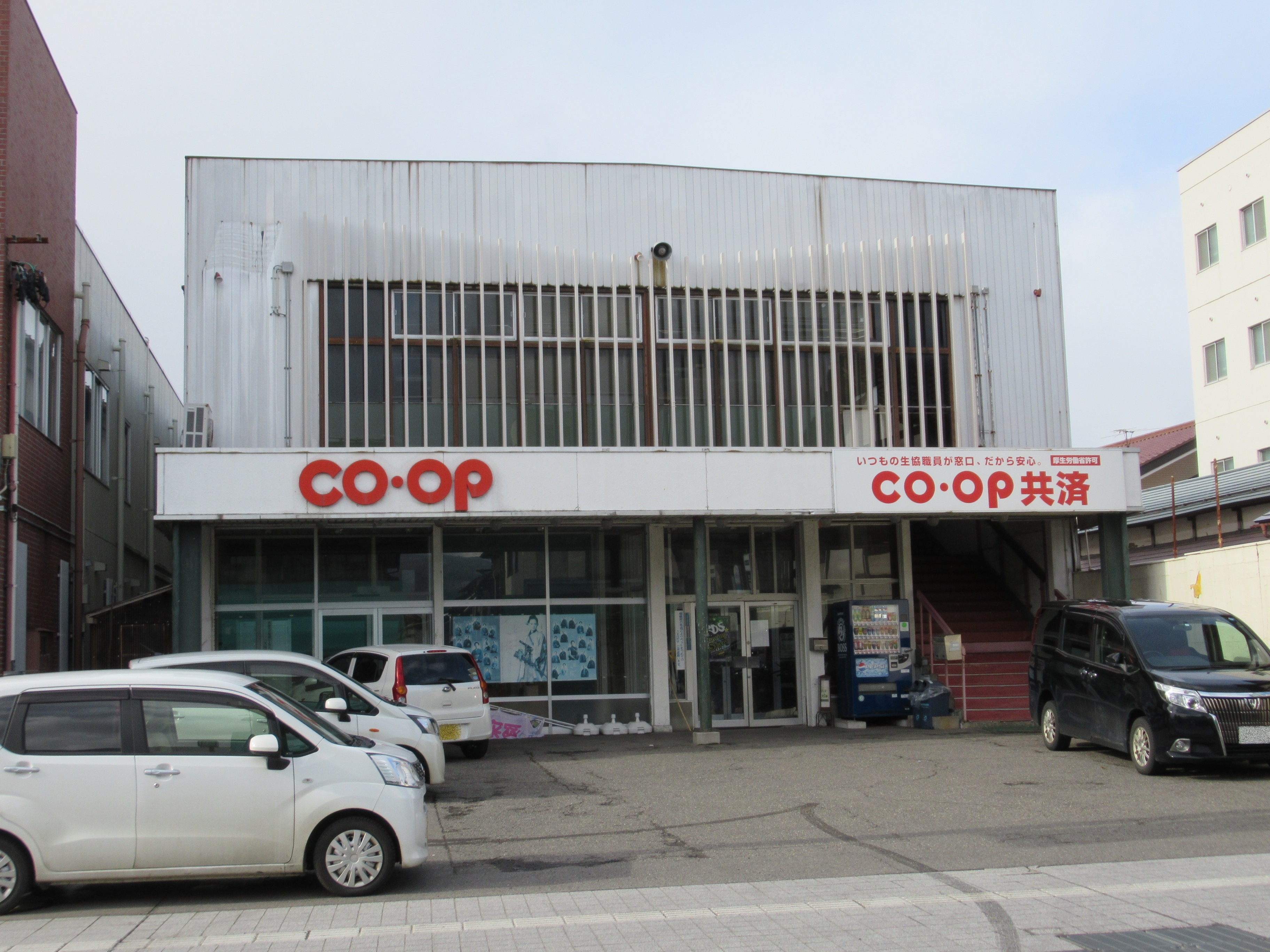 Photographed by poster December 24, 2018.